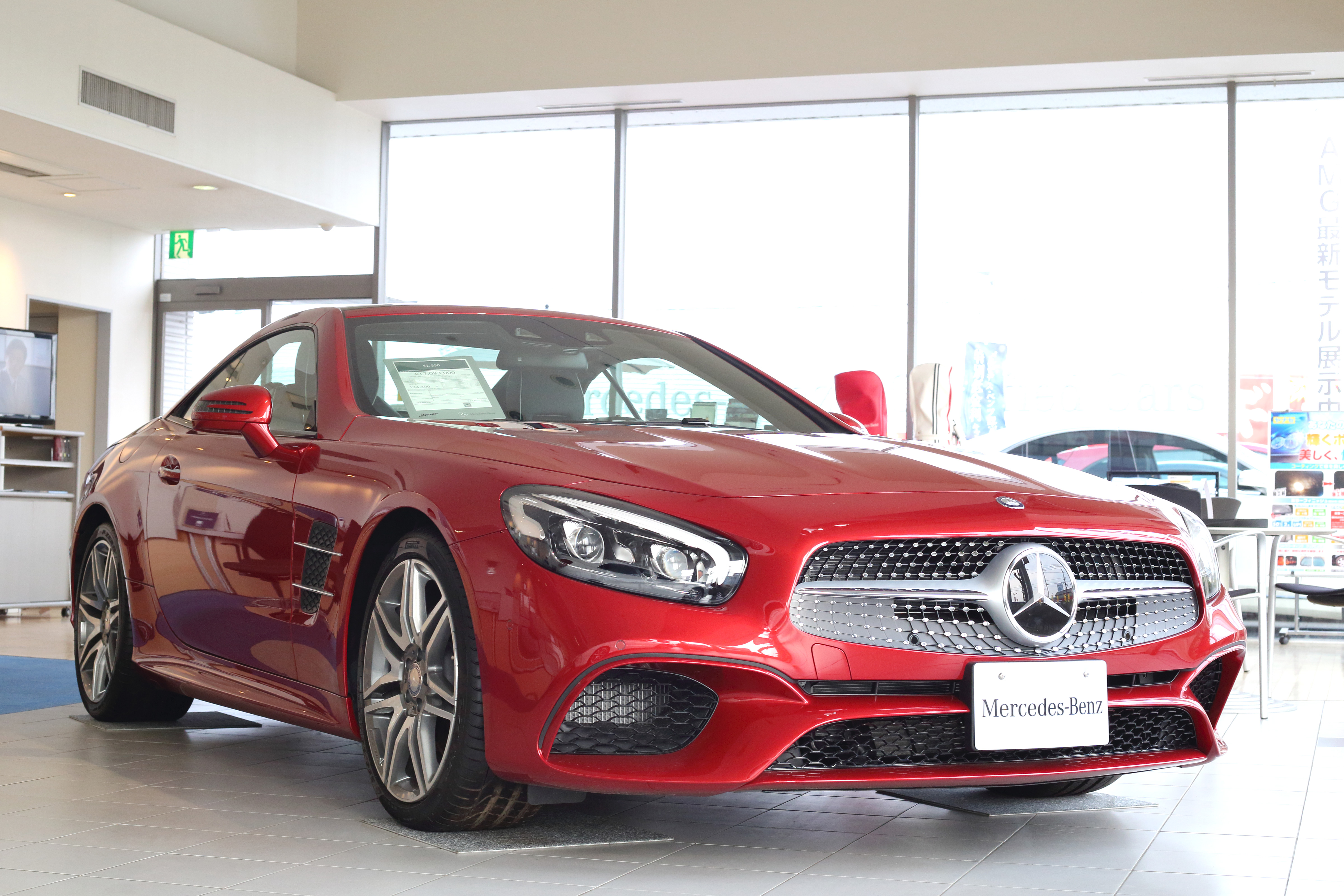 Mercedes-Benz R231 SL 550 (2016) Japanese specification